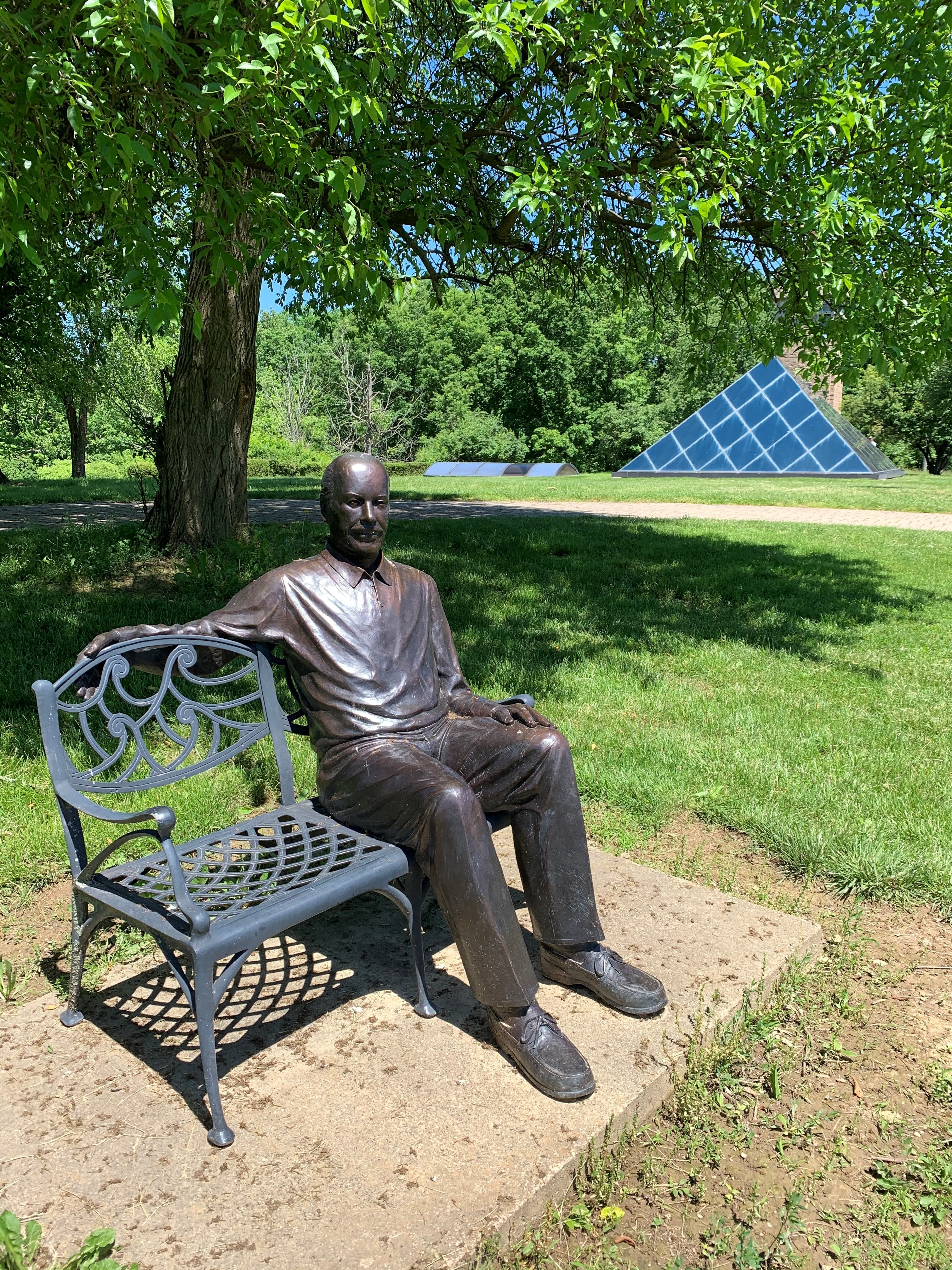 The statue of Harry Wilks is place by the Pyramid House, at the Pyramid Hill Sculpture Park and Museum, located in Hamilton, Ohio.